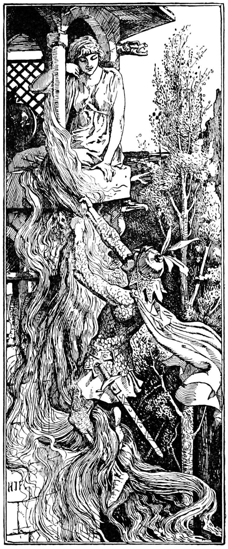 Illustration from "Rapunzel" in The Red Fairy Book, 1890.